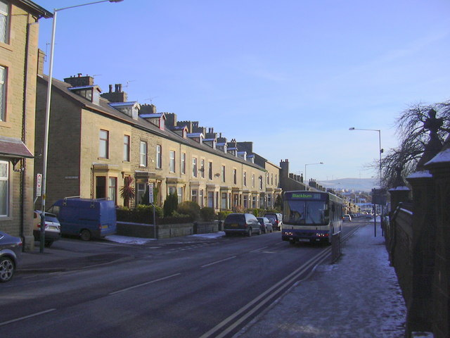 Manchester Road With Scout Moor windfarm on the sky line.